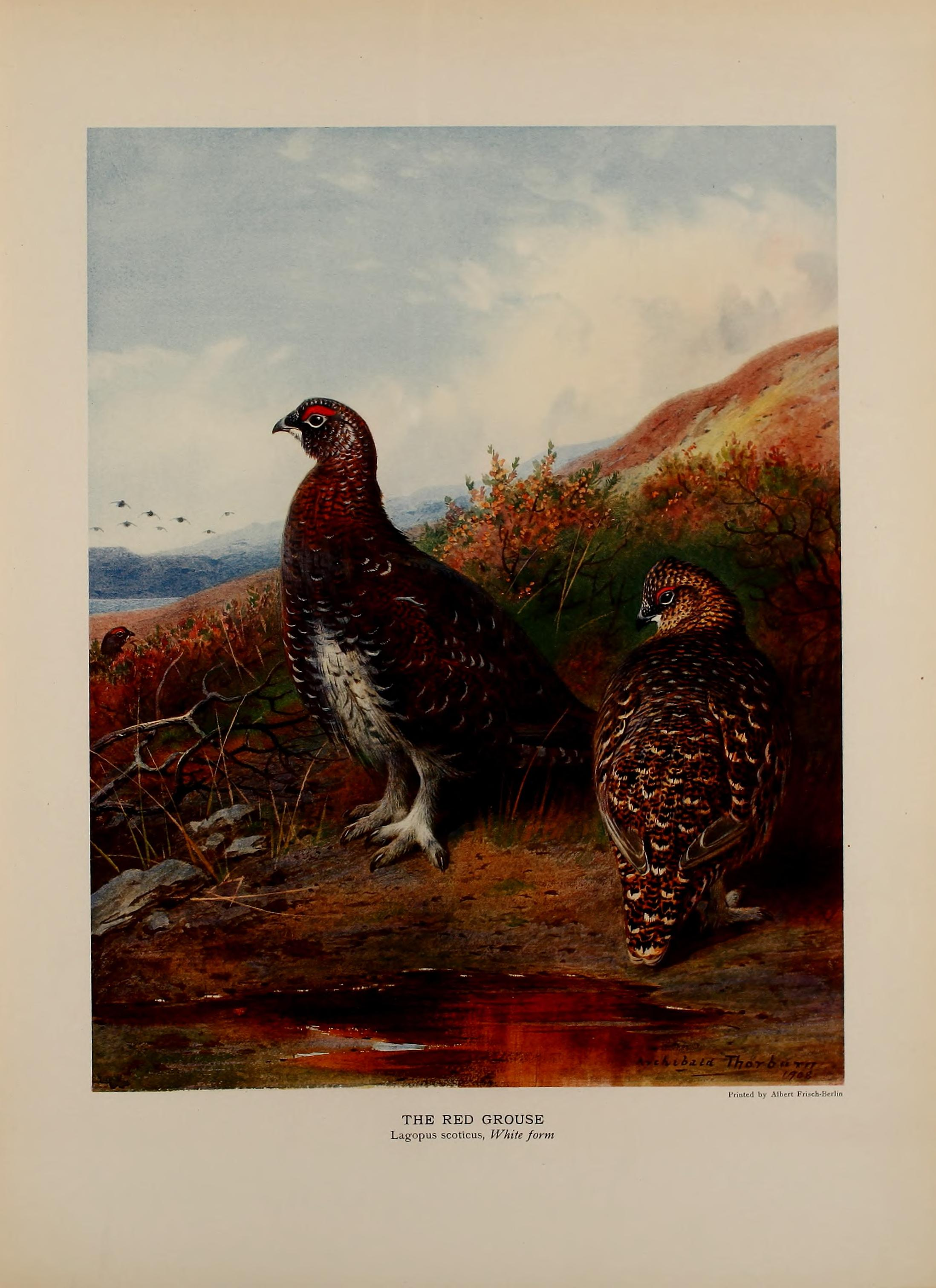 The natural history of British game birds